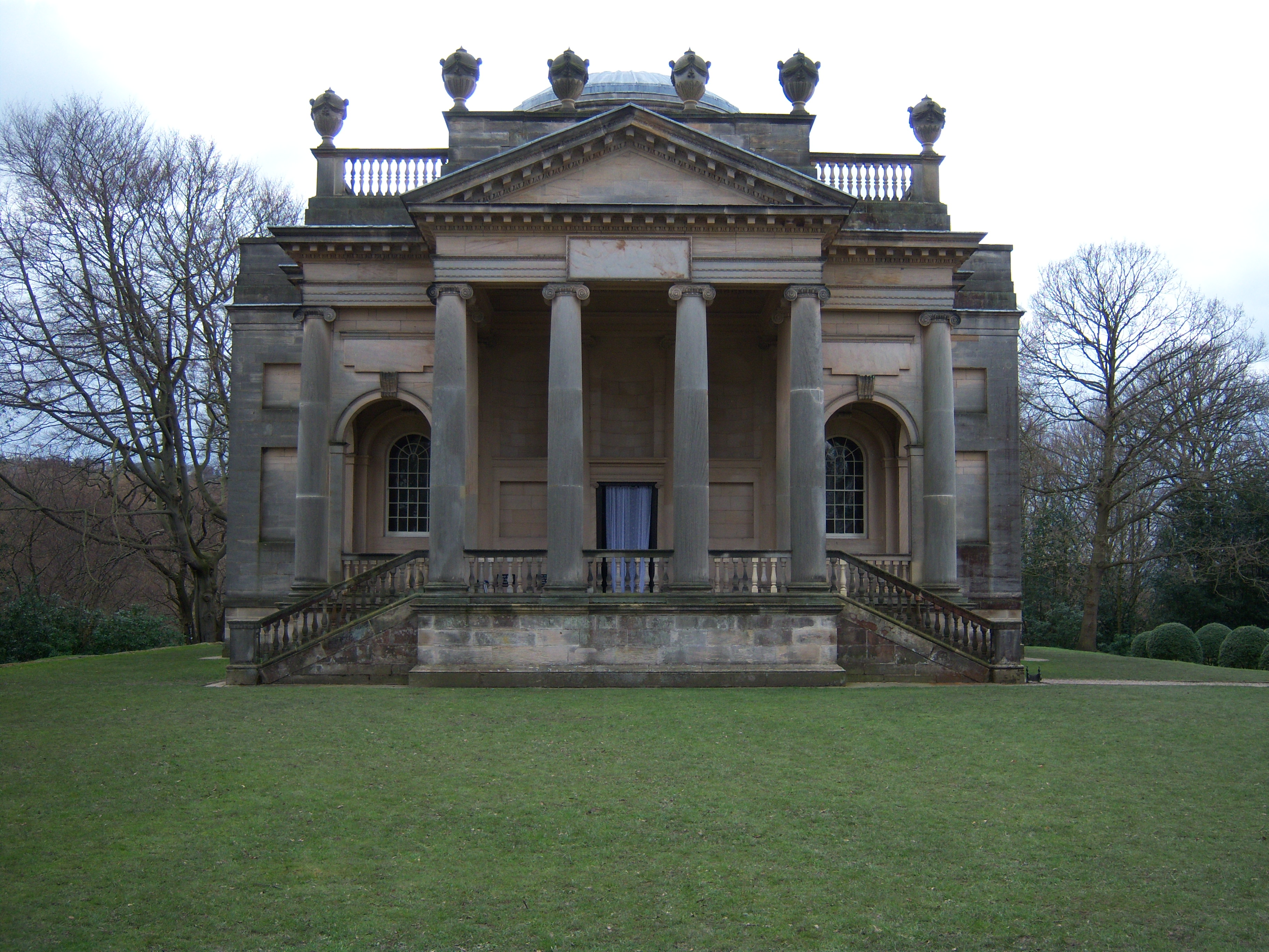 The Chapel on the Gibside National Trust estate near Rowlands Gill in north east England.